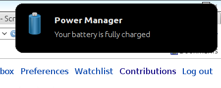 Desktop notification on Lubuntu 12.04 notifying about the battery being fully charged.